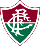 Fluminense logo